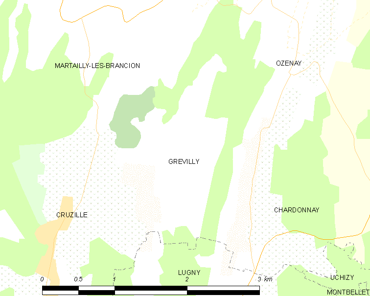 Map of French municipality